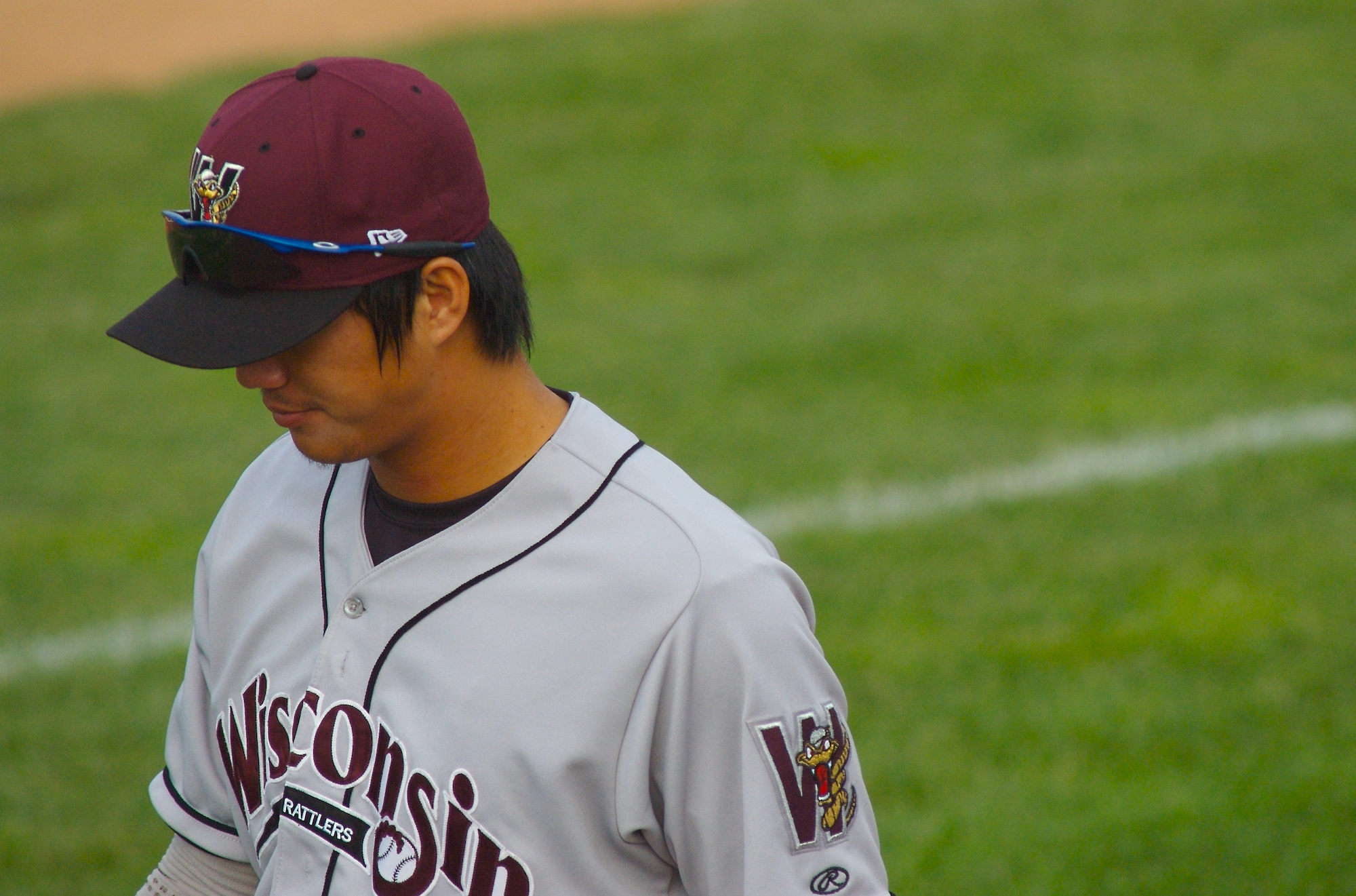 Kuo Hui Lo playing for the Wisconsin Timber Rattlers in 2007.